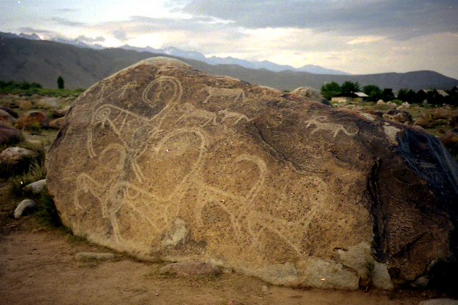 A scan from a 35mm photograph which I took at Cholpon Ata in Kyrgyzstan in July 2002. This scan is in the public domain. This scan is in the Public Domain (however, I retain ownership and copyright of the original transparency and any higher-resolution scans derived from it). SiGarb 00:04, 16 November 2005 (UTC)